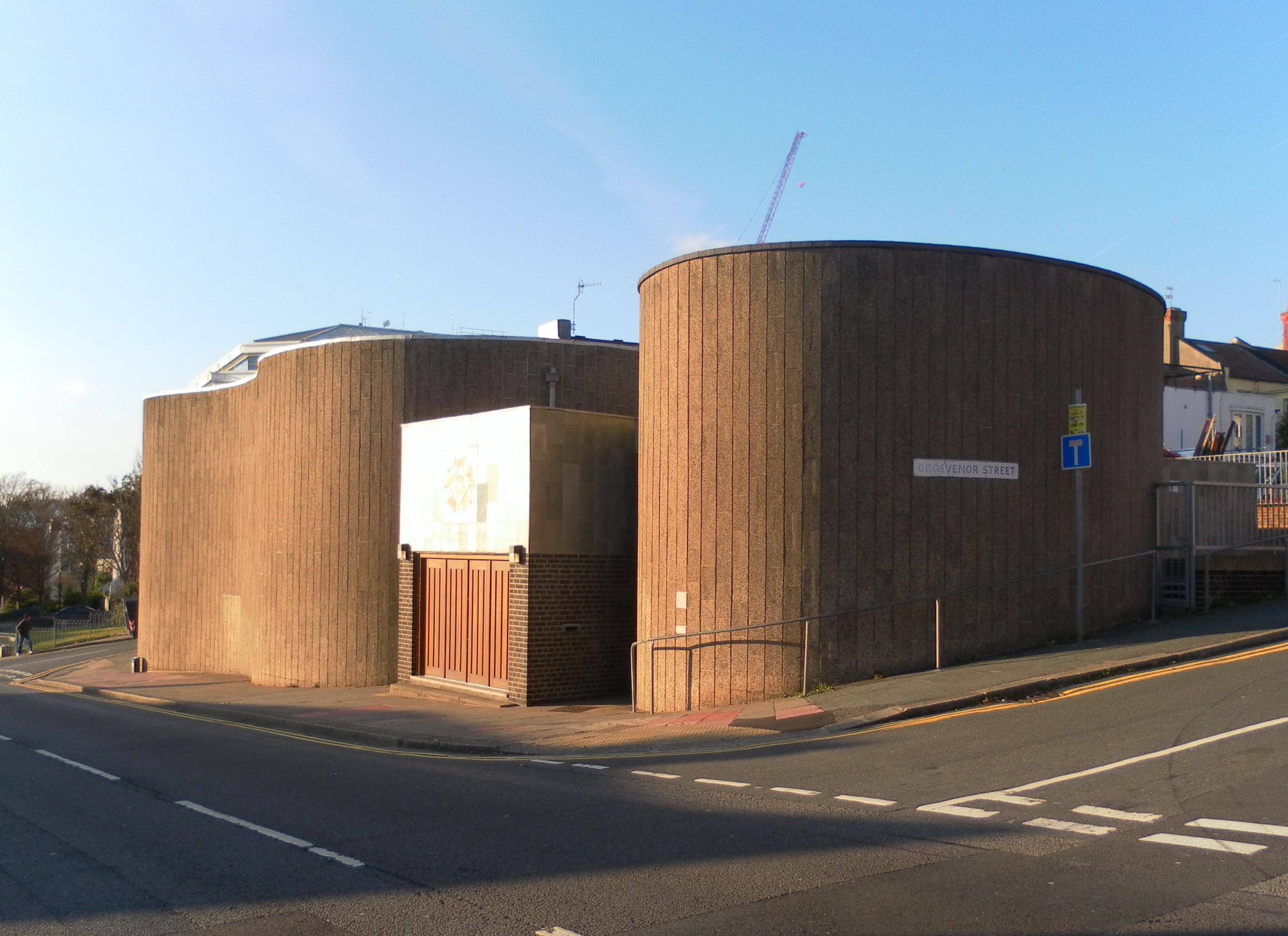 Brighton National Spiritualist Church, corner of Edward Street and Grosvenor Street, Brighton. Built between 1964 and 1965 to replace a nearby chapel demolished to make way for Amex House, the American Express headquarters.